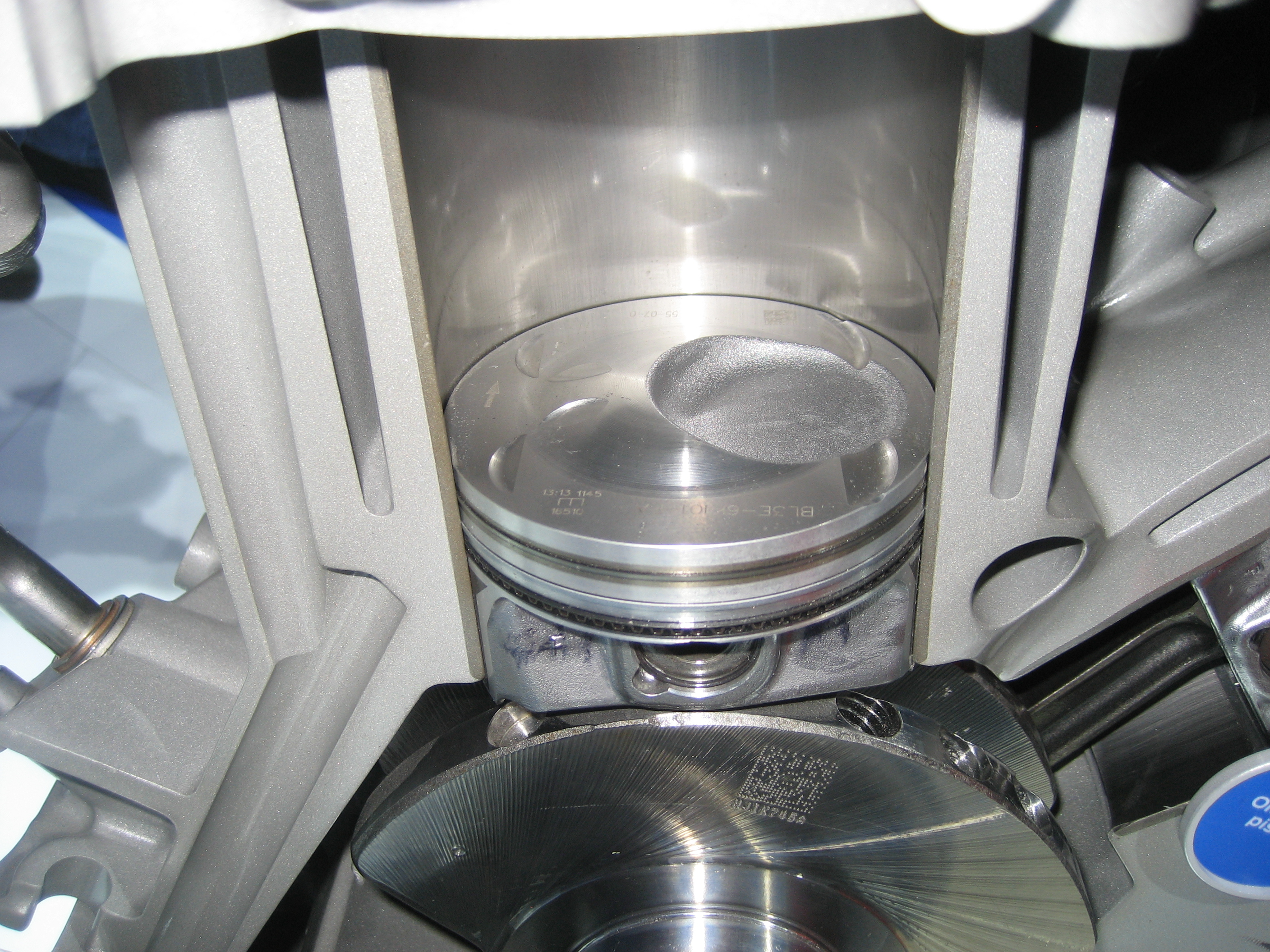 3.5 Ford Ecoboost demo engine.